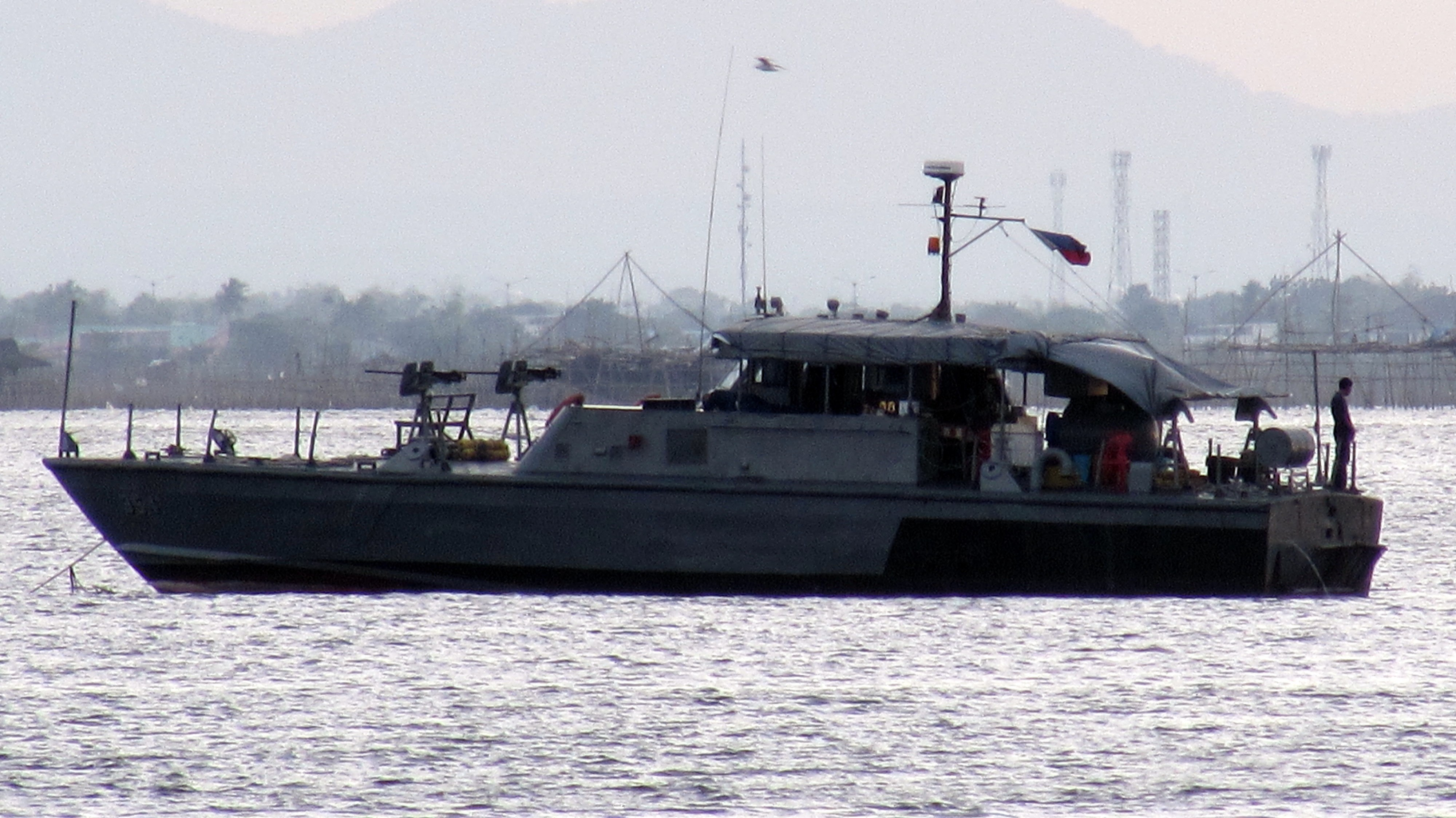 A Swift Mk 3 class Patrol Boat of the Philippine Navy guarding the Manila Bay during the 31st Association of South East Asian Nation (ASEAN) Summit.